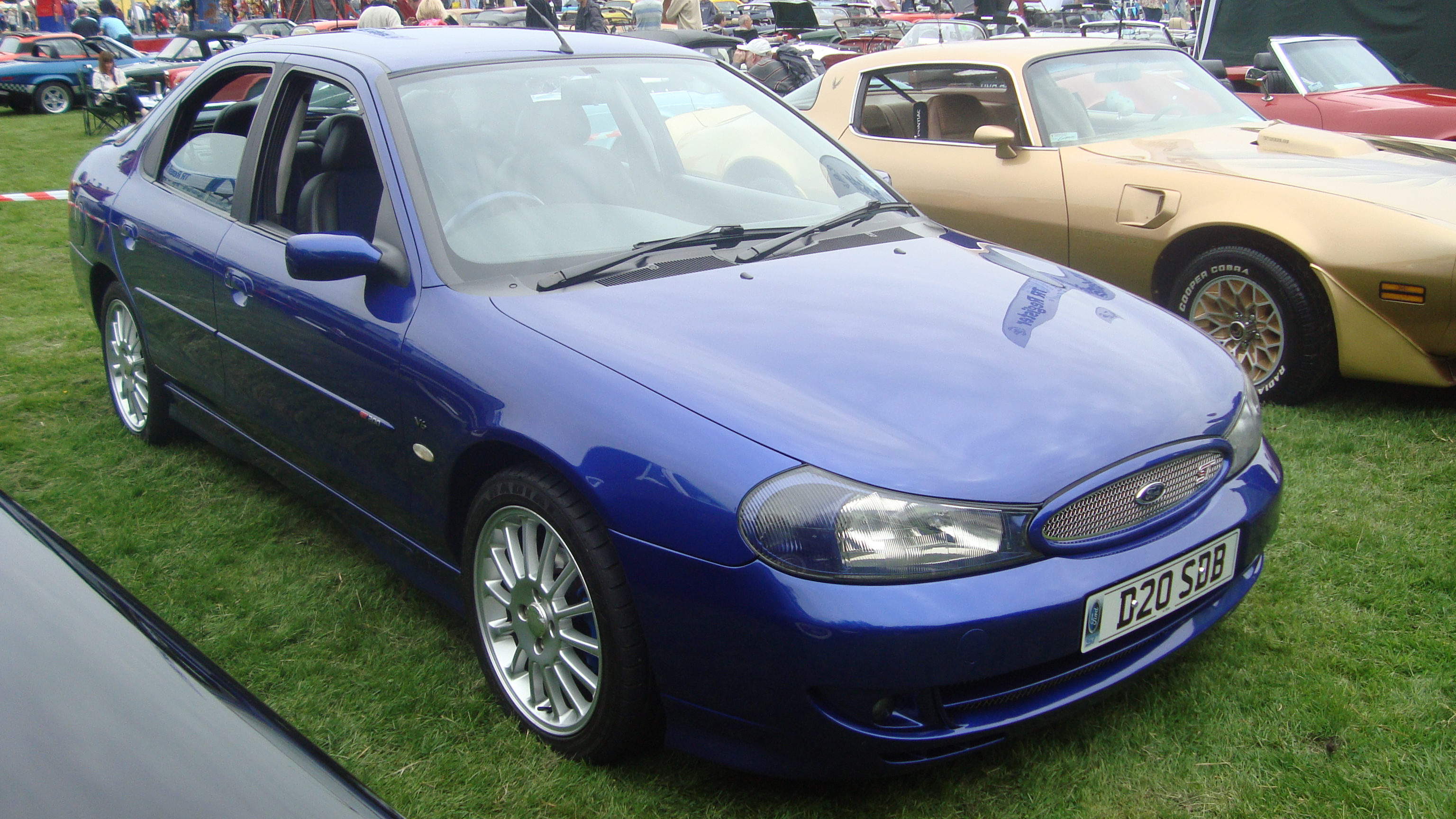 See this regularly, it's a lot of car shows and works at Malbern windows just around the corner from my house